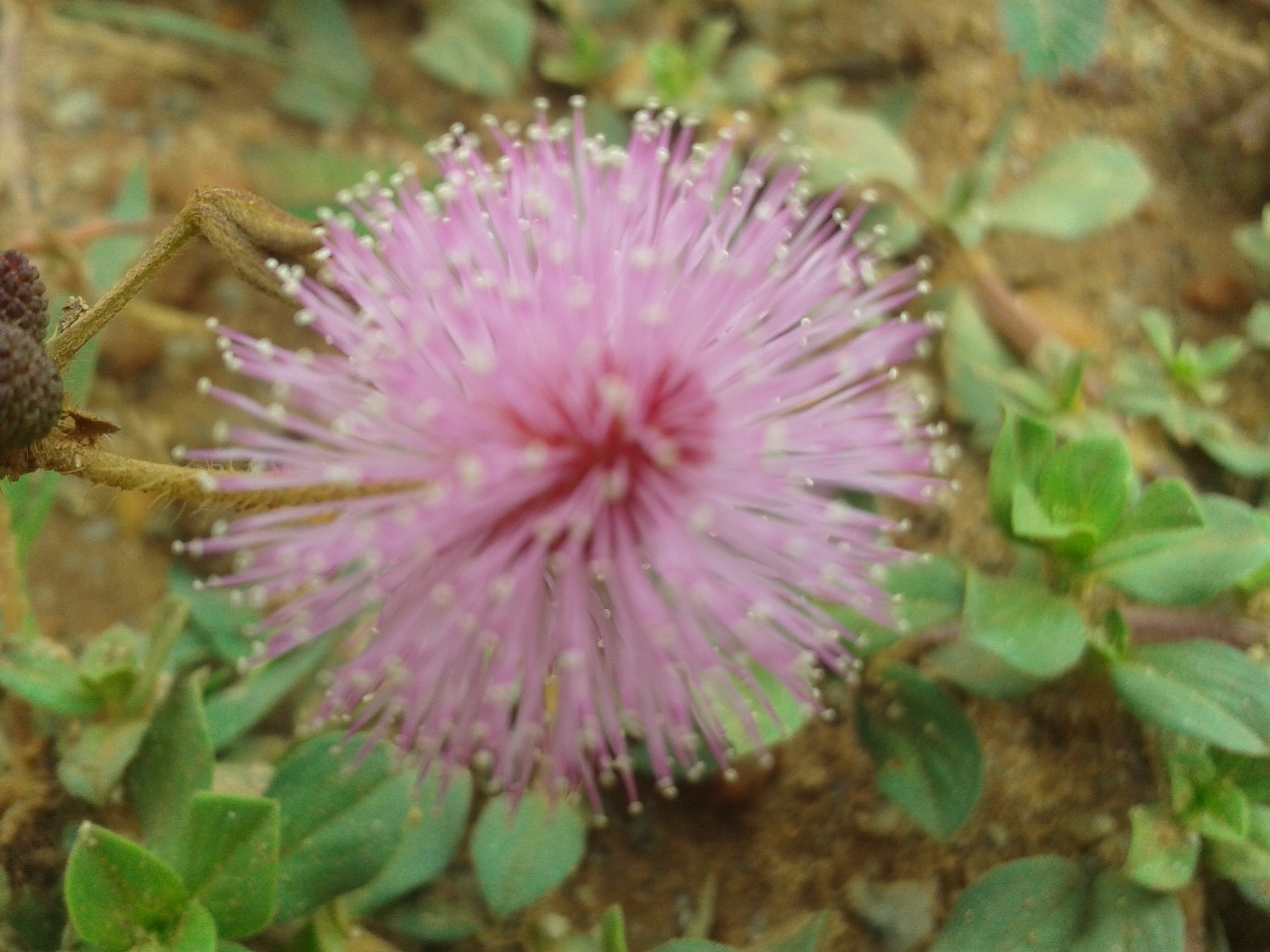 Mimosa pudica PLANT'S FLOWER WITH LEAVES